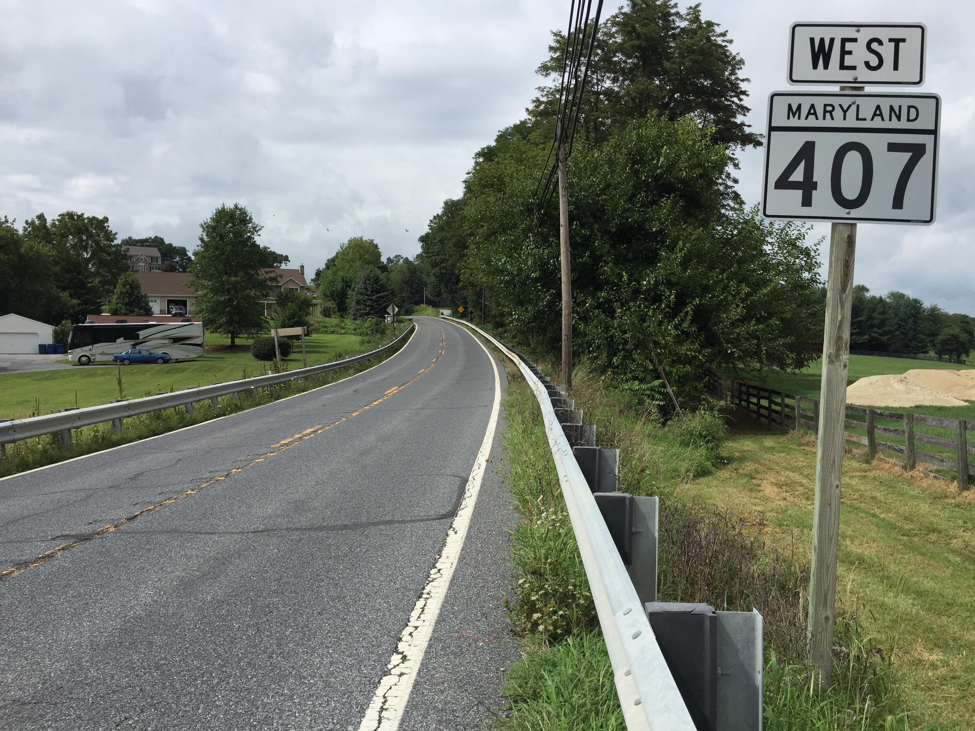 View west along Maryland State Route 407 (Marston Road) at Bowersox Road in Marston, Carroll County, Maryland